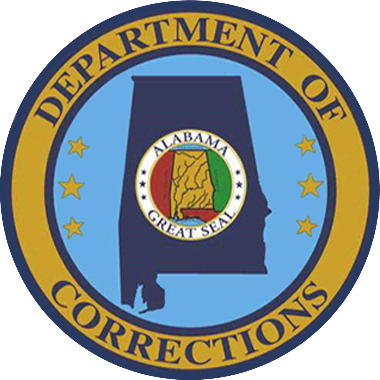 A representation of the seal used by the Alabama Department of Corrections to identify the agency to the public.